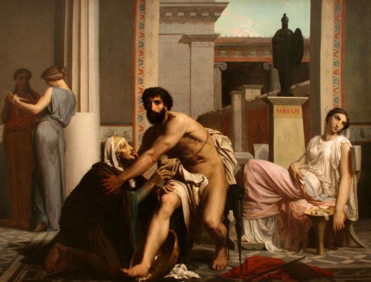 Ulysses recognized by his nurse on his return from Troy